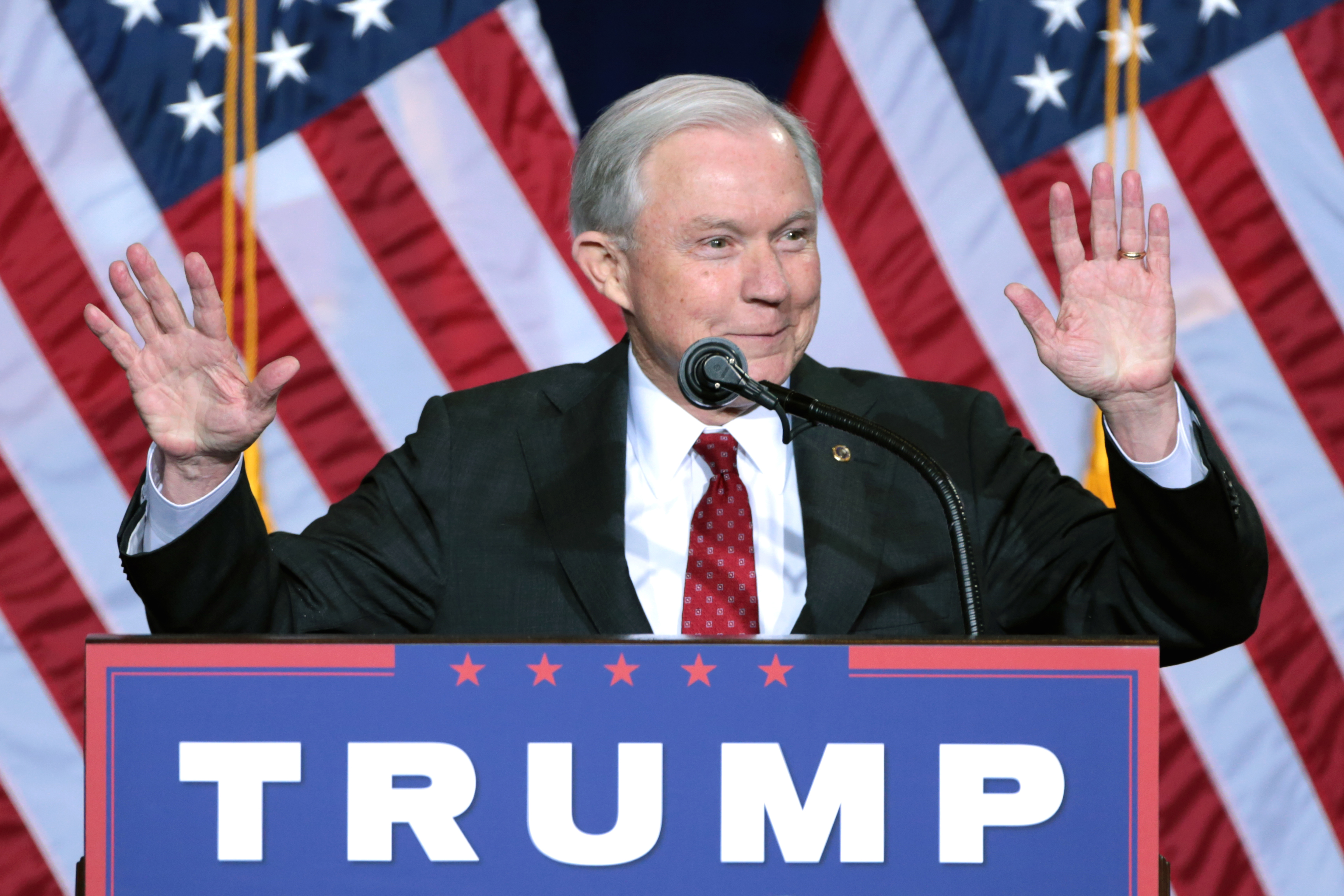 U.S. Senator Jeff Sessions of Alabama speaking to supporters at an immigration policy speech hosted by Donald Trump at the Phoenix Convention Center in Phoenix, Arizona.